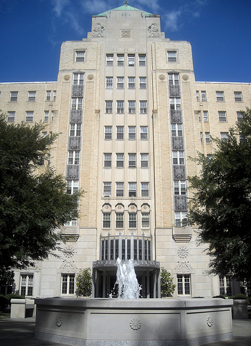 Kennedy-Warren Apartment Building in the Cleveland Park neighborhood of Washington The Art Deco building is listed on the National Register of Historic Places.